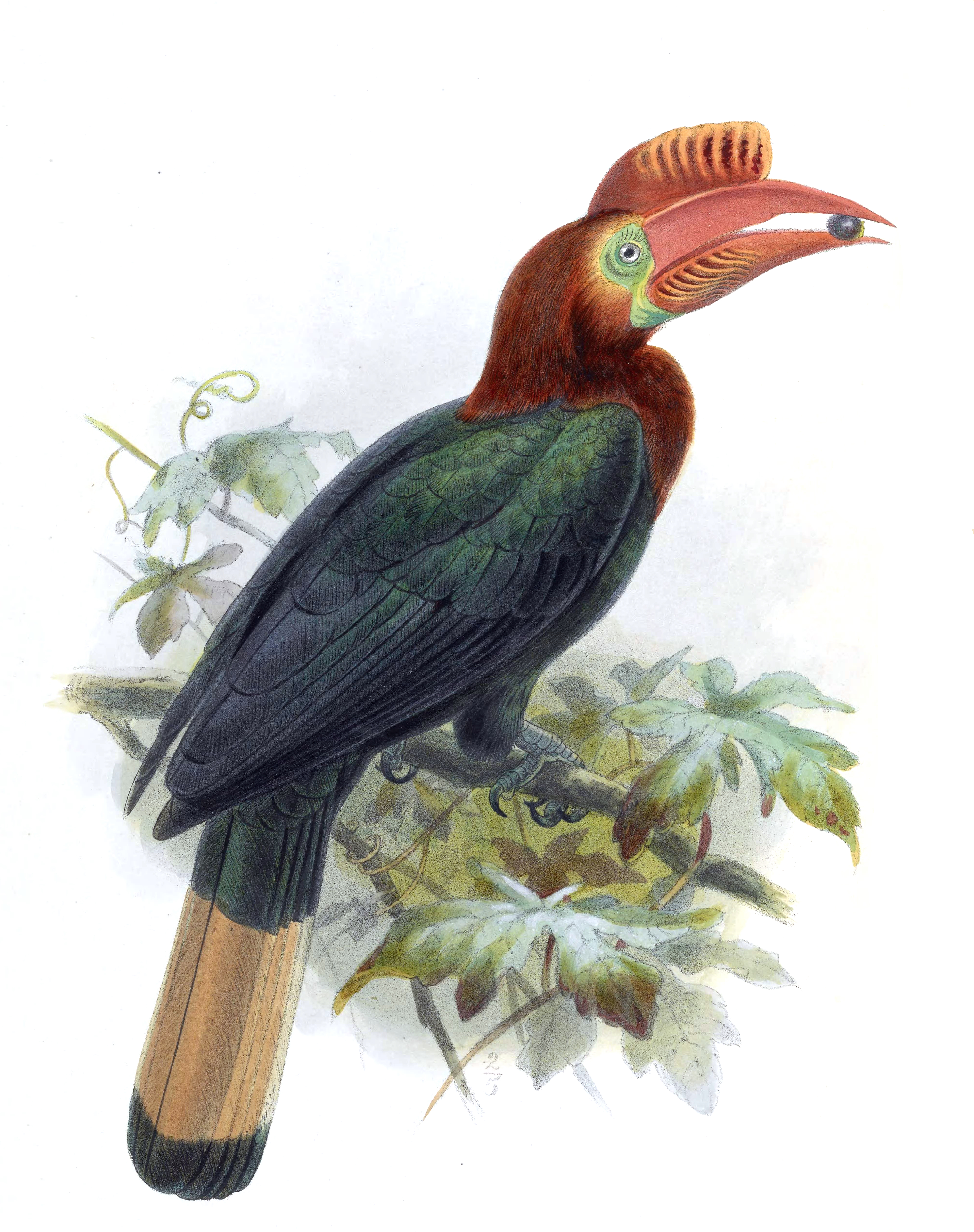 A monograph of the Bucerotidæ, or family of the hornbills.